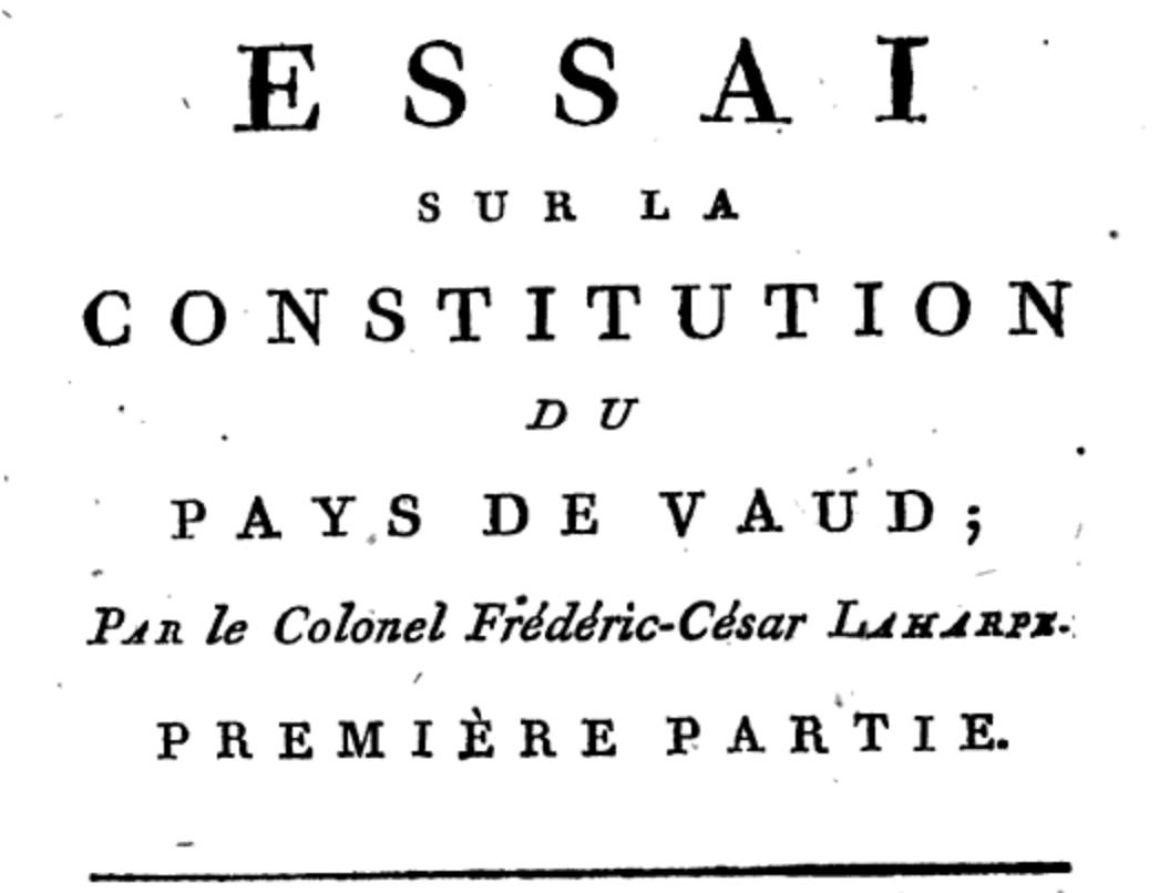 The cover page of the Essay on the Constitution of Vaud by Frédéric-César de LaHarpe